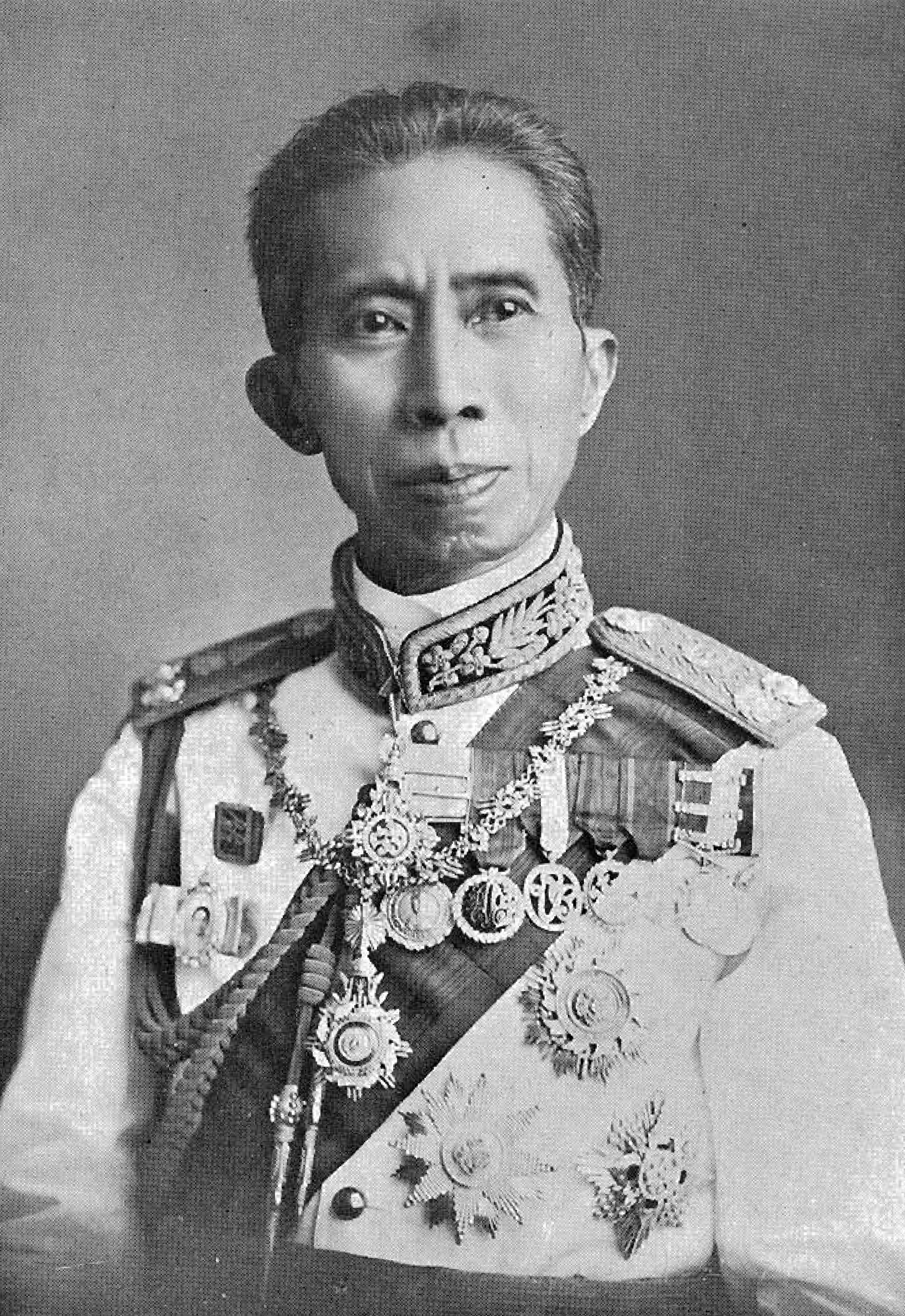 Prince Narisara Nuvadtivongs.